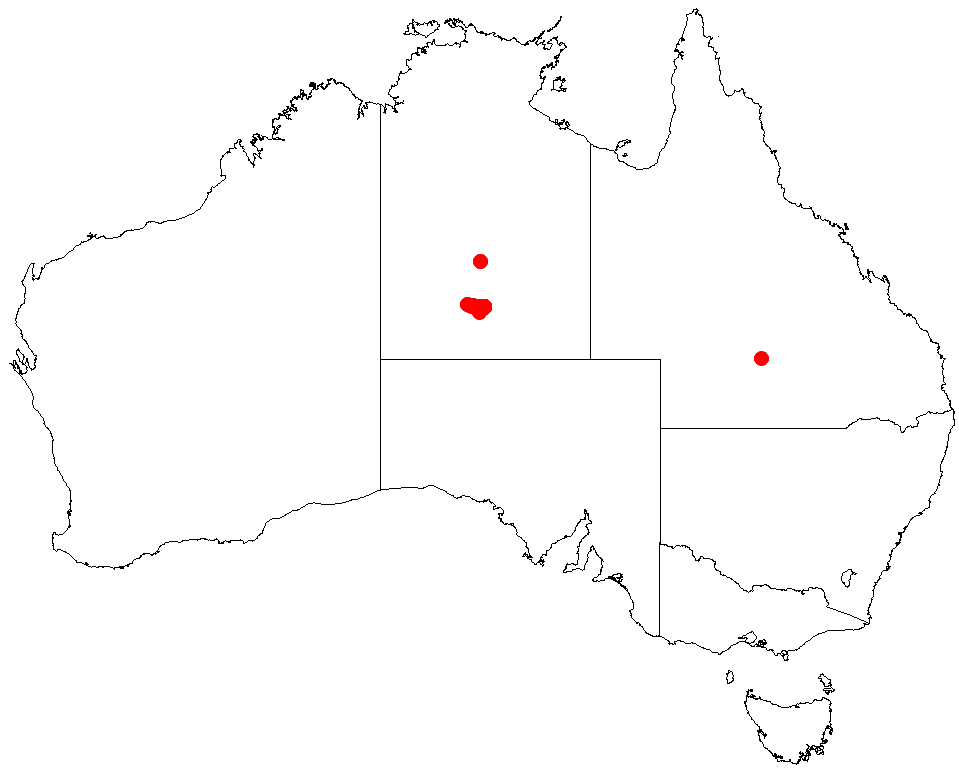 Hakea standleyensis Occurrence data downloaded from Australasian Virtual Herbarium on 22 November 2018 using